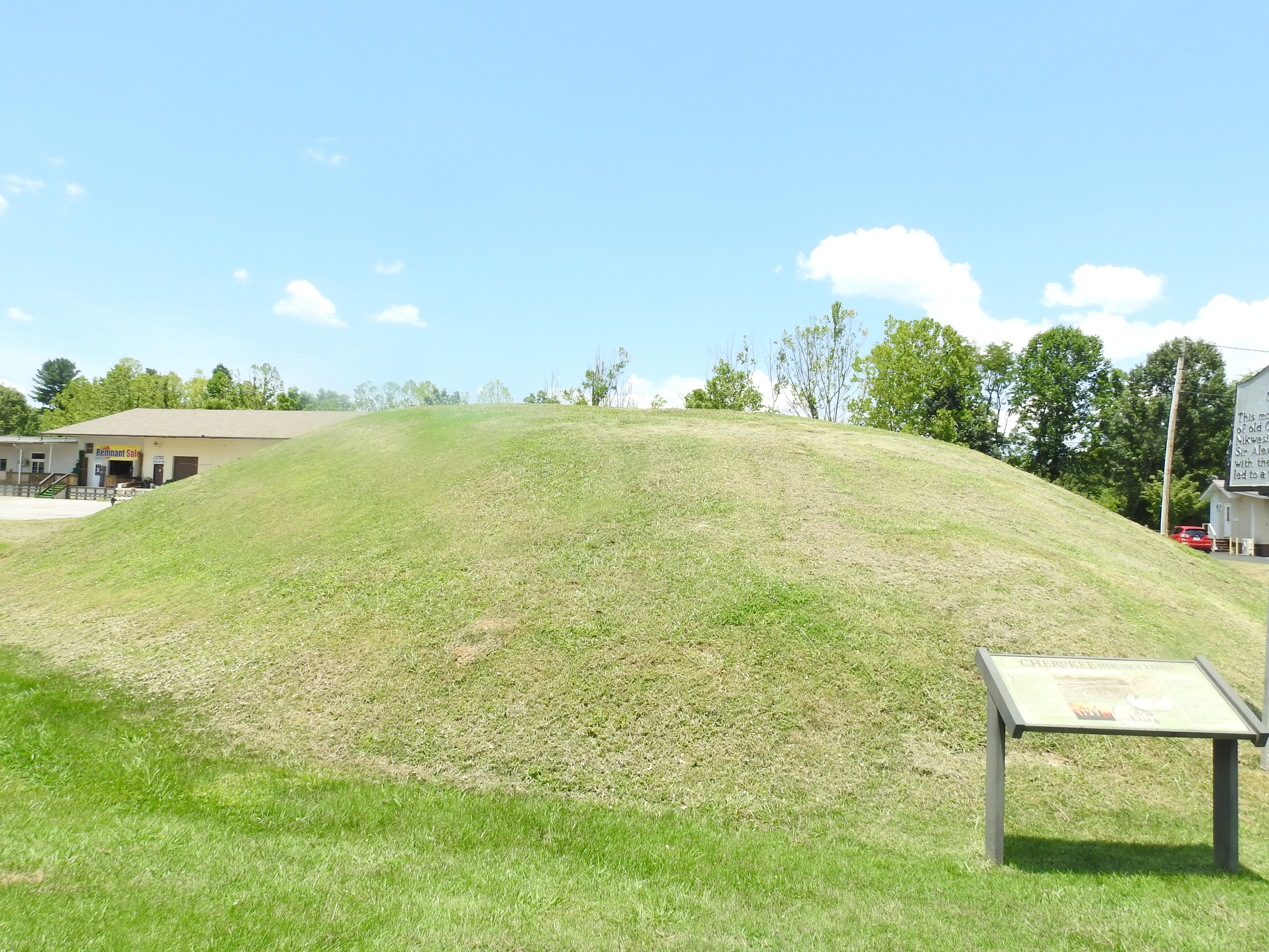 The Nikwasi Mound in Franklin, Macon County, North Carolina